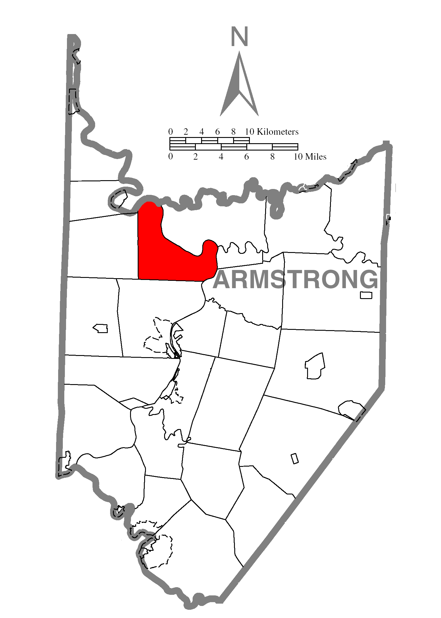 A map of Armstrong County showing Washington Township, Pennsylvania (alternate) highlighted on the map.